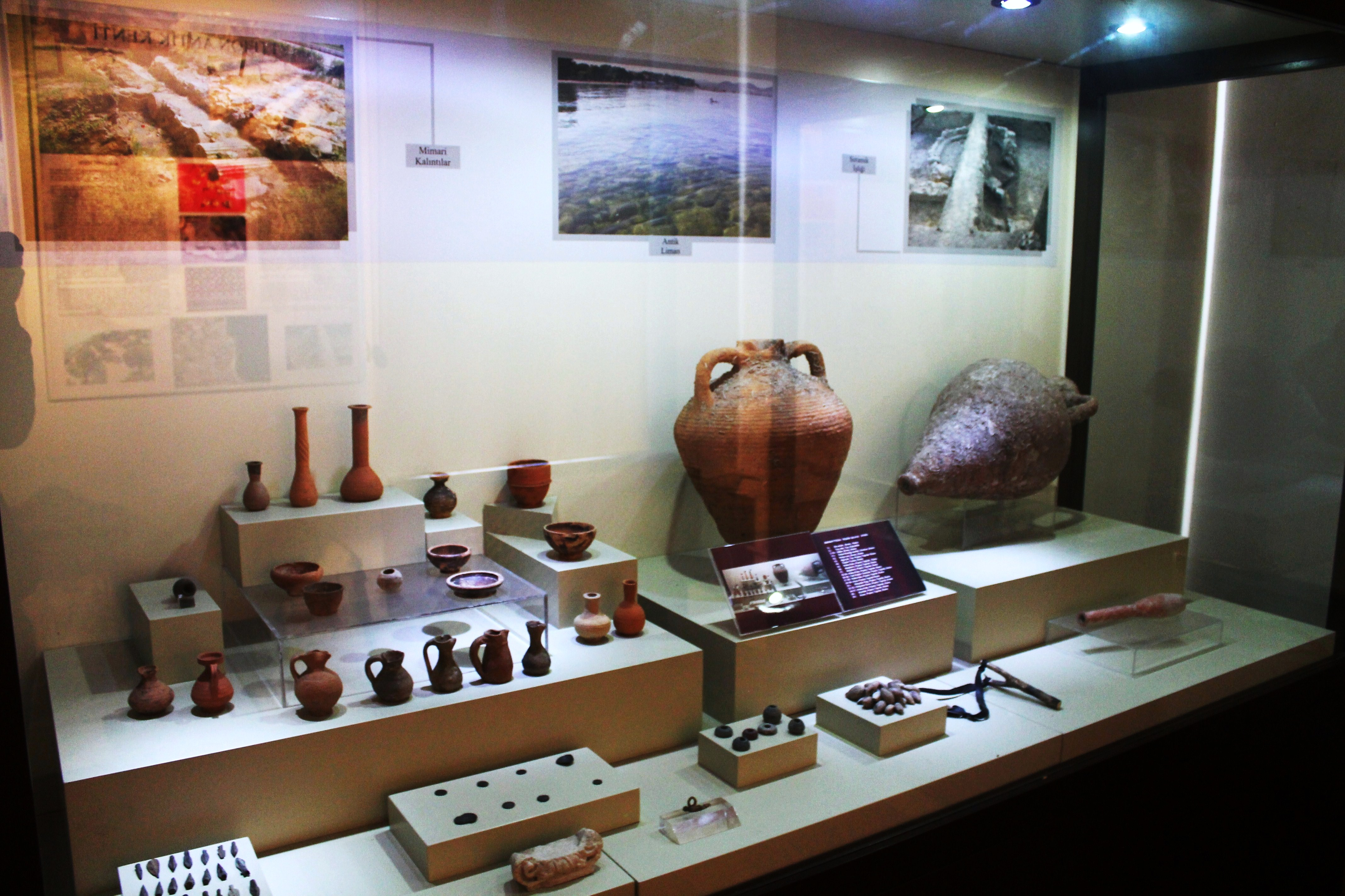 archaeological finds from city Adramytteion, Museum of Kuva-yi Milliye (Balıkesir)